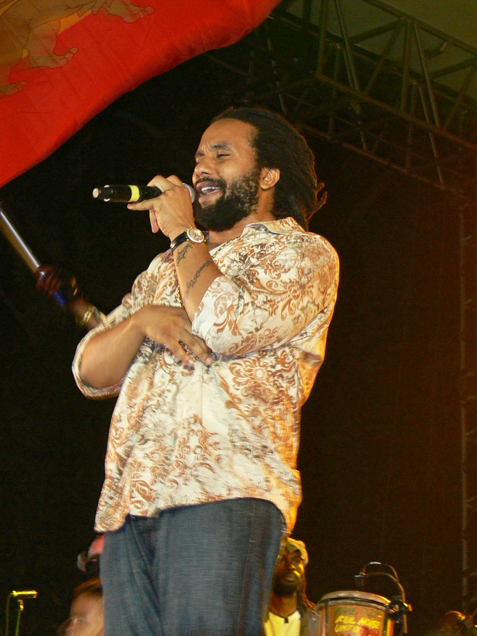 Kymani Marley on stage at Smile Jamaica Africa Unite 2008 on February 23, 2008